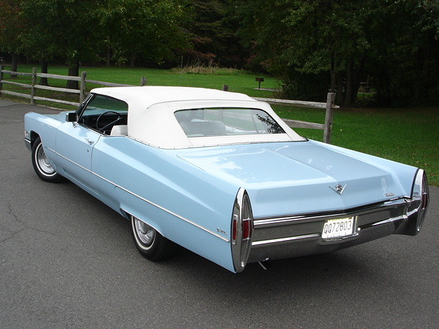 1968 cadillac deville